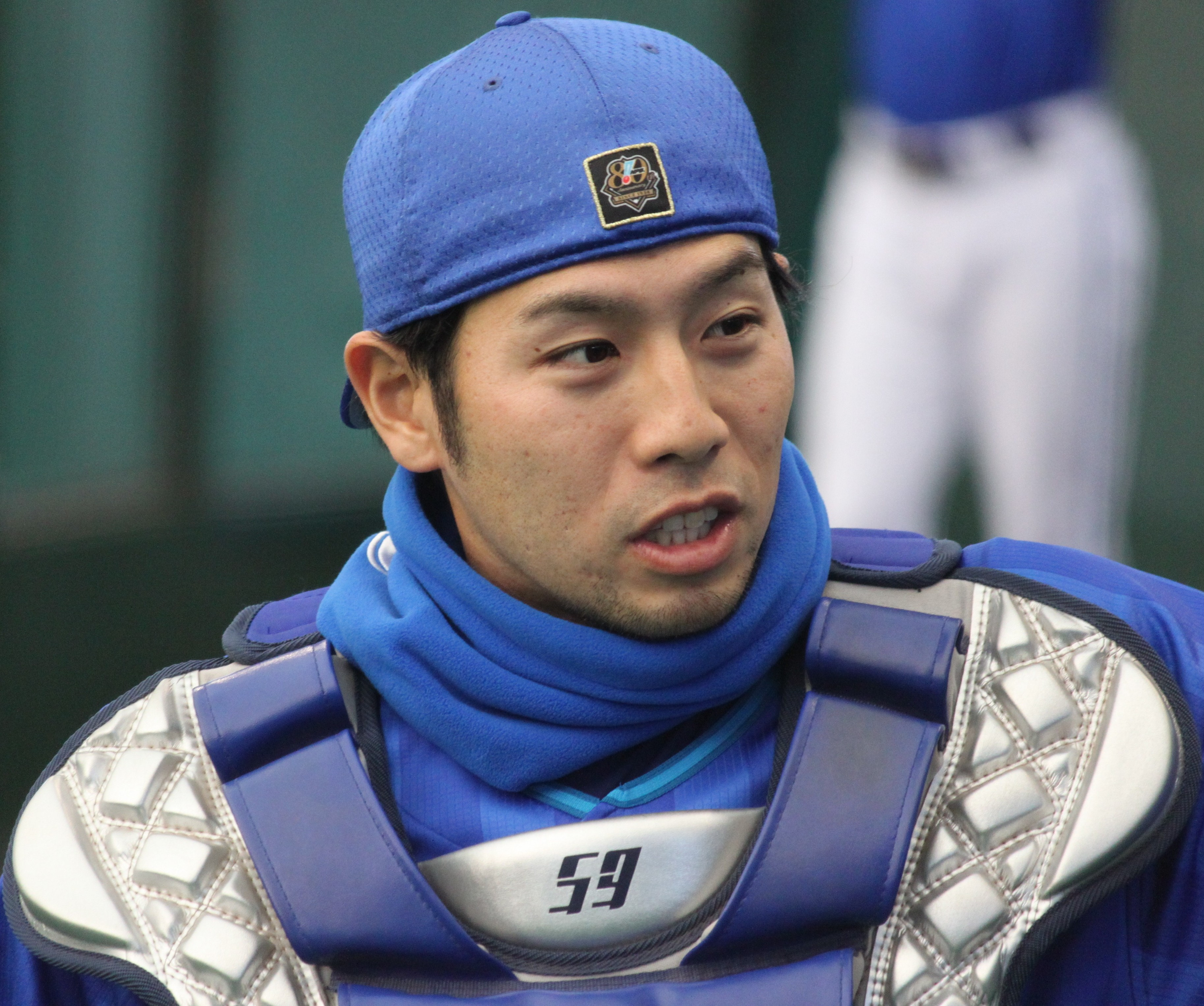 Ichiro Matsushita, bullpen catcher of the Yokohama DeNA BayStars, at Seibu Dome.